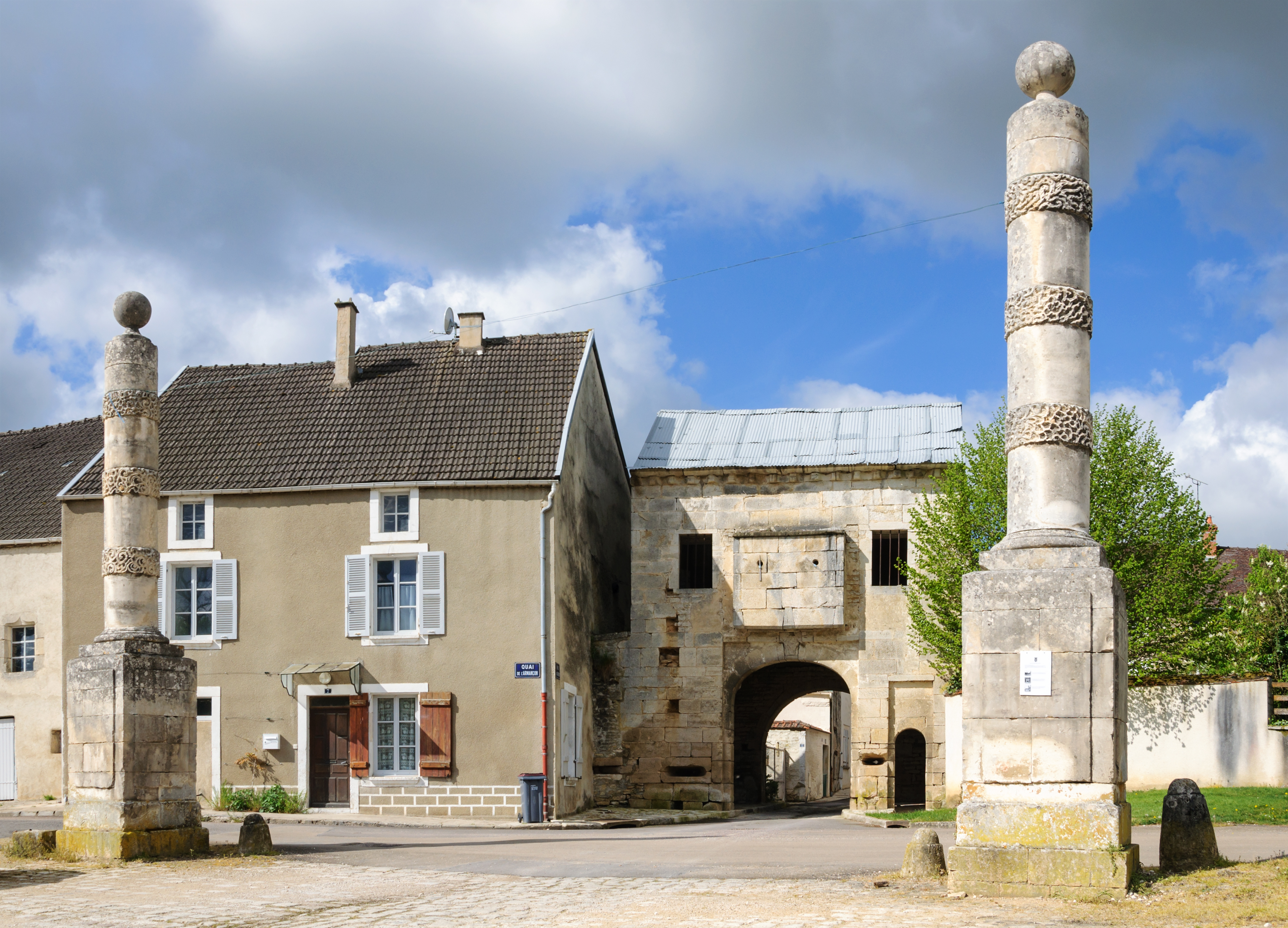 The monumental columns and the fortified gate of Nuits (Burgundy, France).